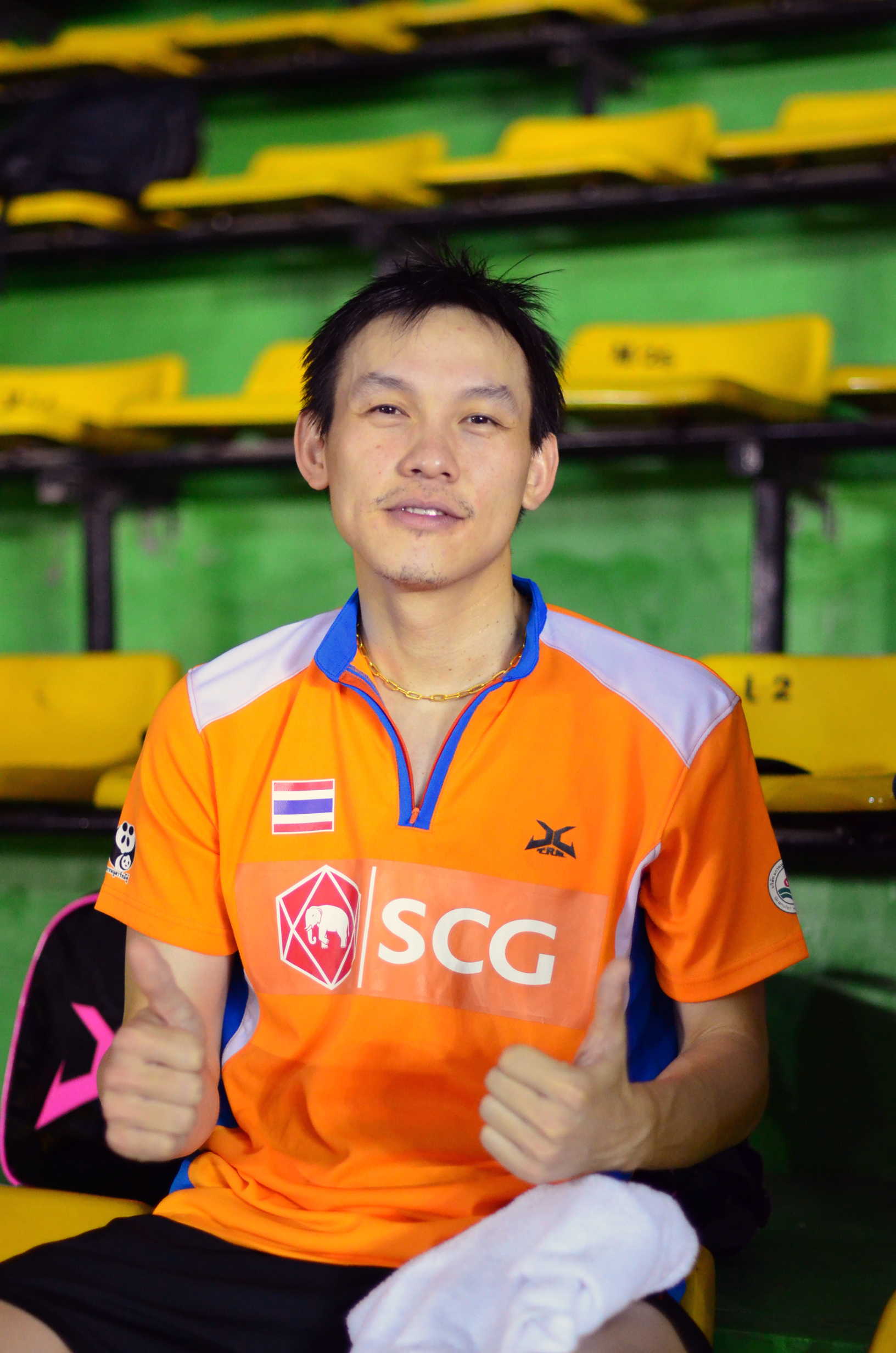 Sudket Prapakamol